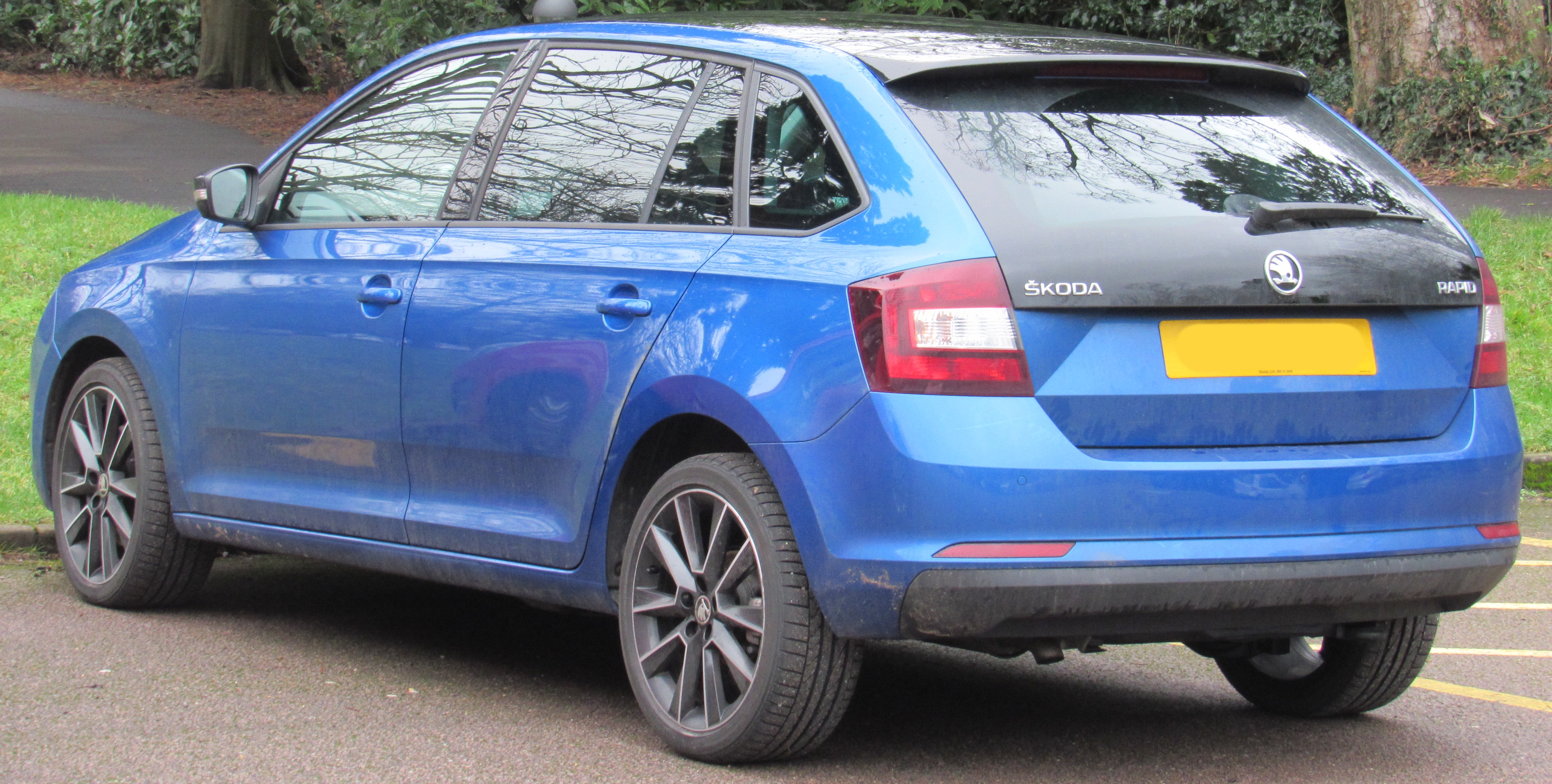 2017 Skoda Rapid Spaceback SE Sport 1.2 Rear Taken in Warwick